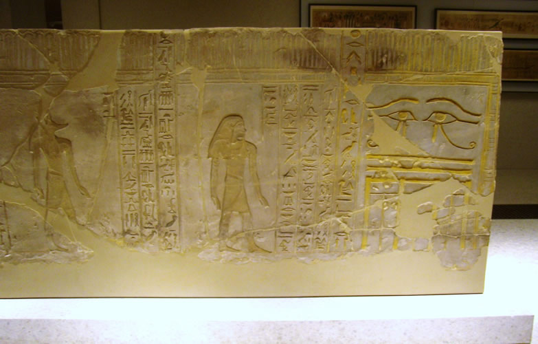 Sarcophagus of Nehy, viceroy og Kush under Thutmoses III, in the Egyptian New Kingdom; Berlin